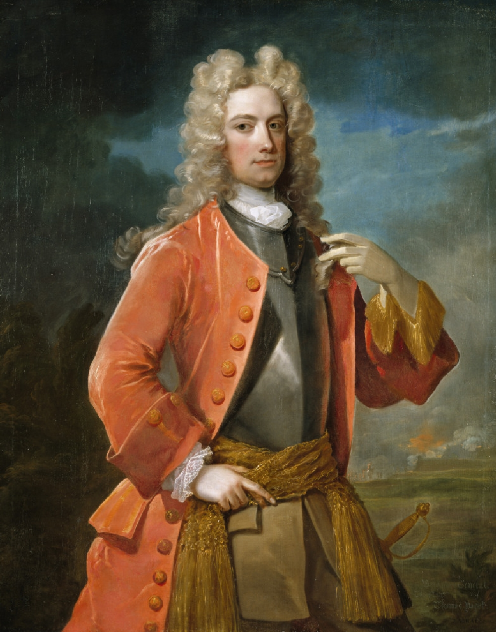 Portrait of Brigadier-General, the Honourable Thomas Paget (c.1685-1741), Governor of Minorca. Courtesy of the collection of the National Trust.